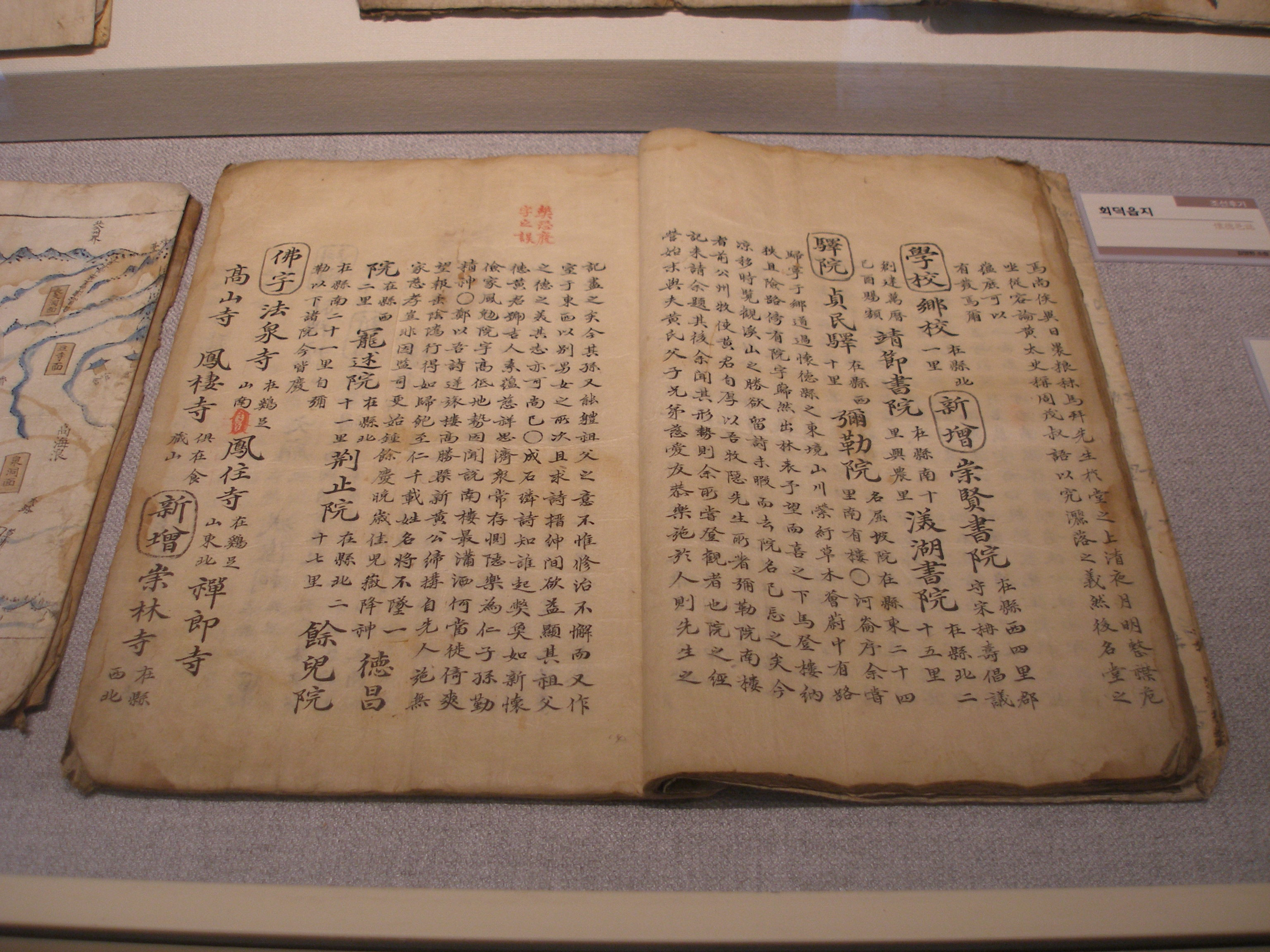 Old fact book of Heodeok, a town in South Korea (late Joseon Dynasty) displayed at Museum of South Chungcheong province.